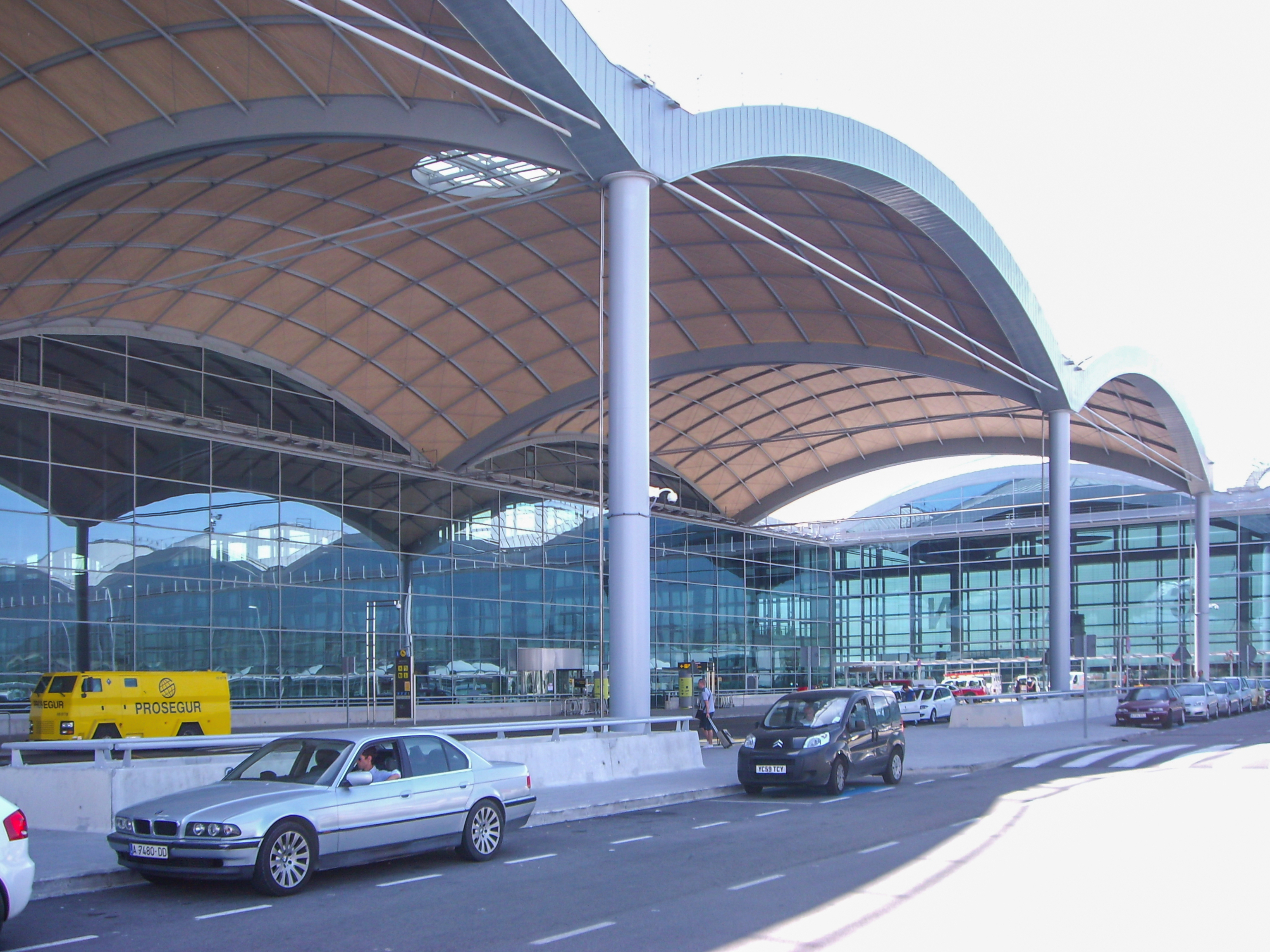 Alicante airport